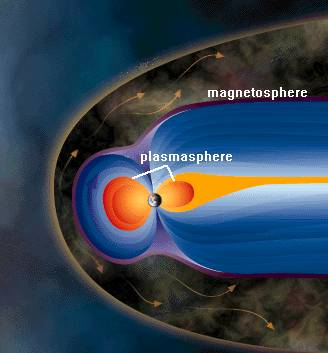 Obtained from NASA's website